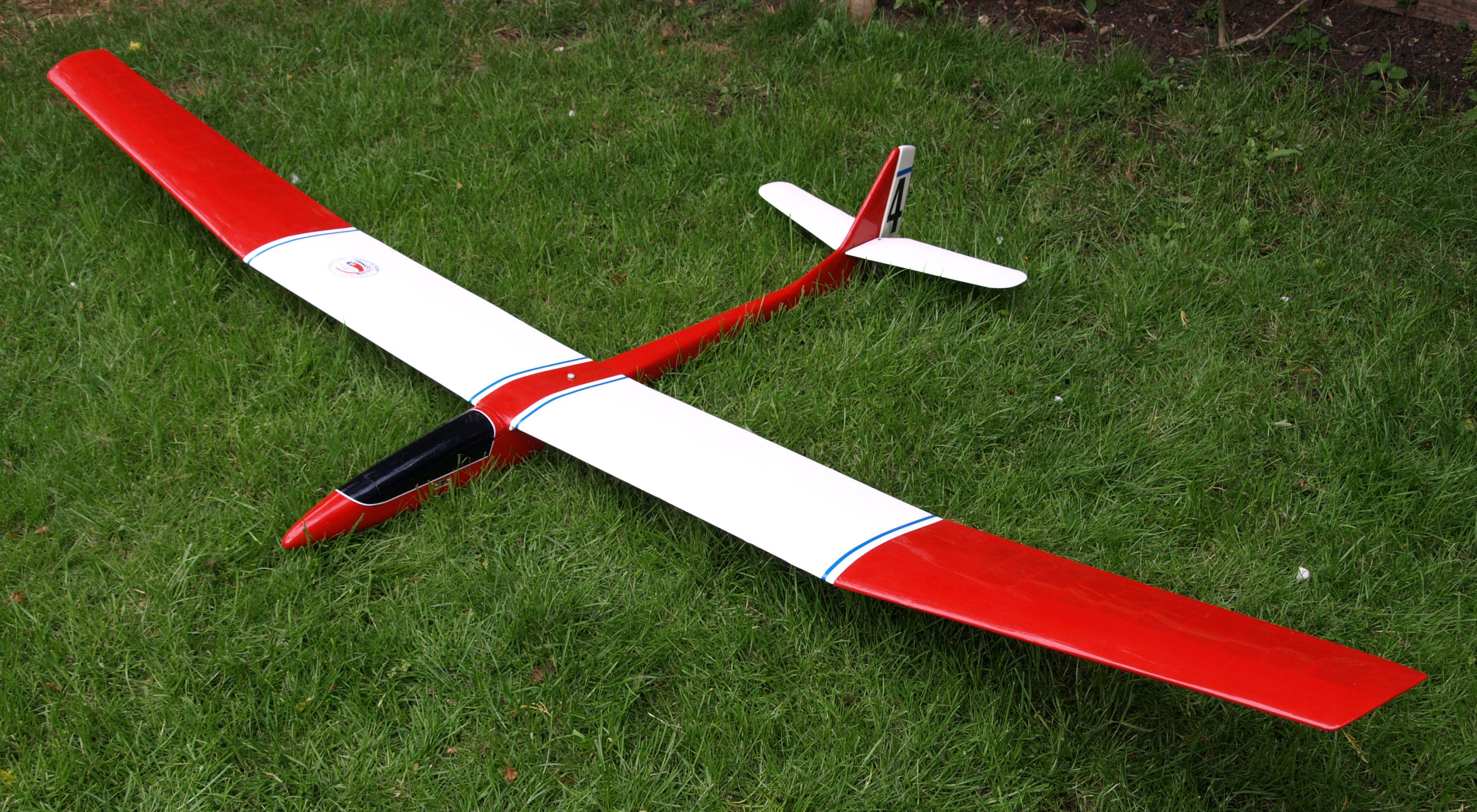 'Chieftain' 100S class radio controlled glider